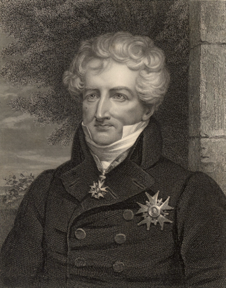 Portrait (engraving) of Georges Cuvier (1769-1832). He was founder of the modern scientific palaeontology.